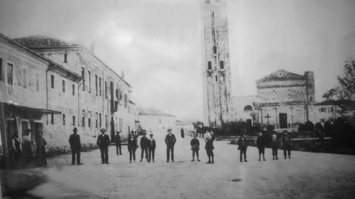 San Giorgio delle Pertiche in the past